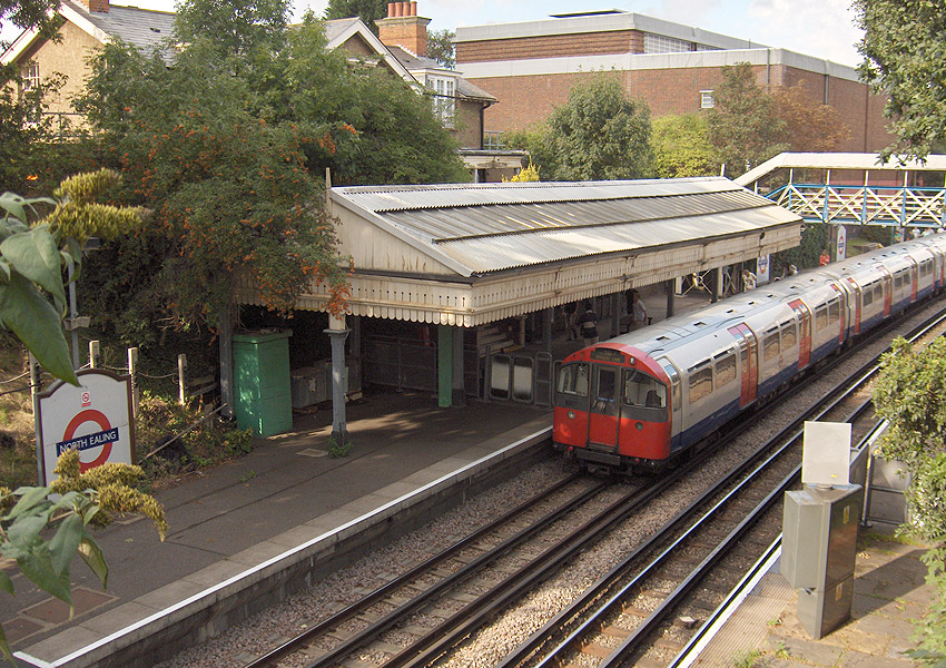 North Ealing underground station, northbound Piccadilly Line train at the platform (September 2006)